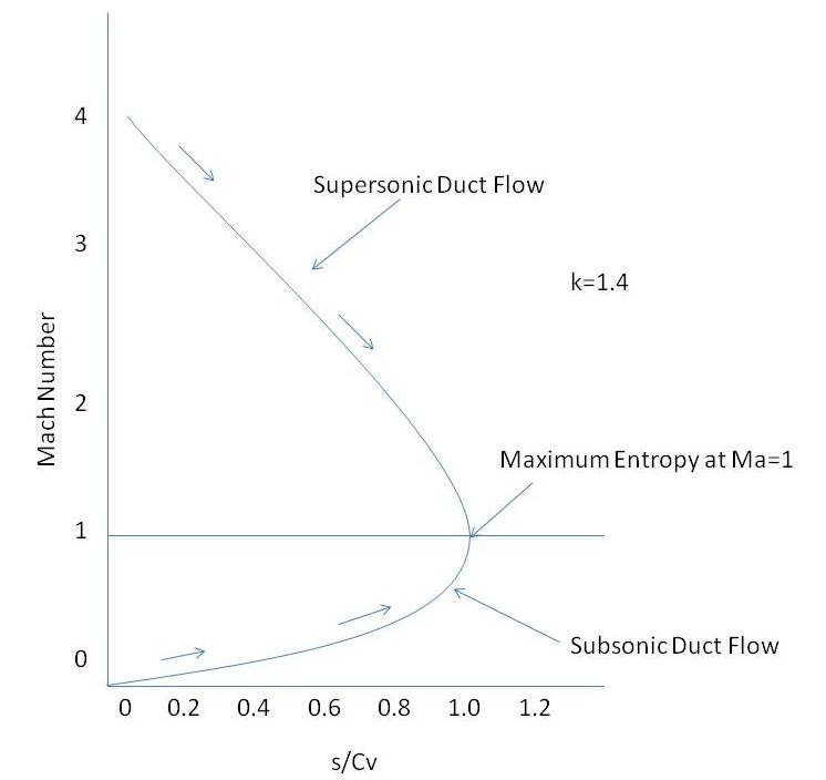 Mach no. v/s s/Cv